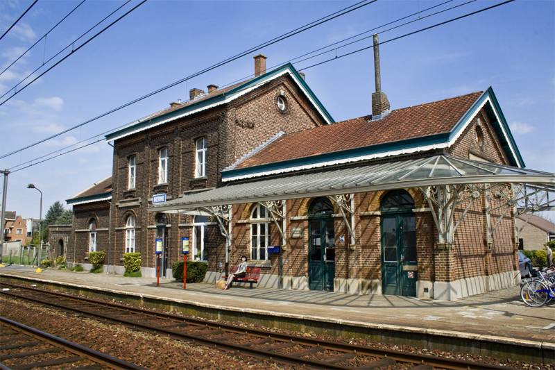 Station of Herne